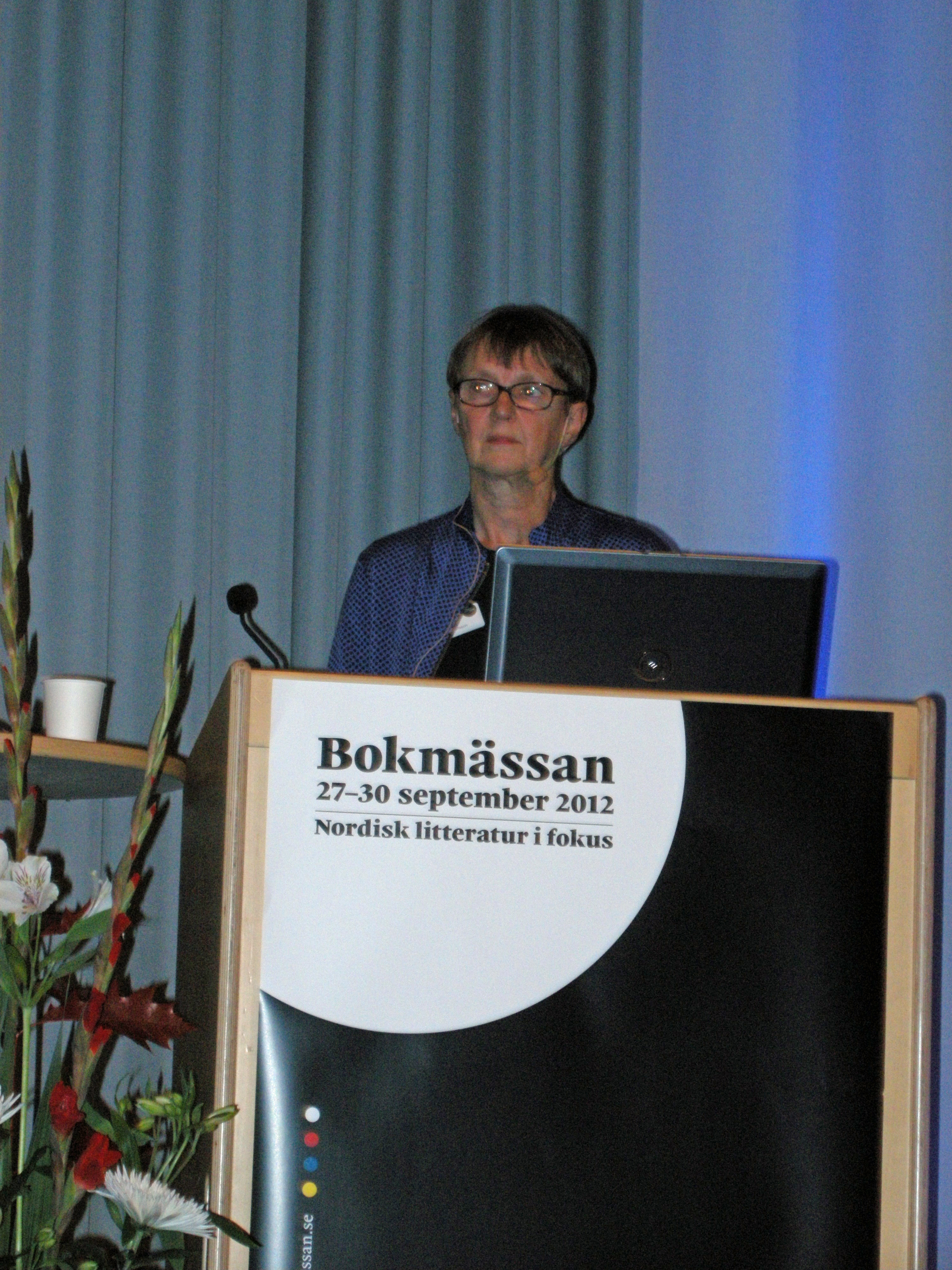 Anne-Marie Karlsson, Svenska Barnboksinstitutet, at Göteborg Book Fair 2012